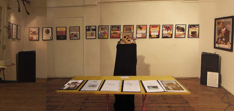 Exhibition by Yolanda Feindura Ad olfactum – Salon Fehrfeld Bremen 2016)